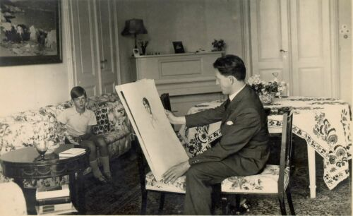 Božidar Jakac portraits Peter II of Yugoslavia in 1934 at Bled